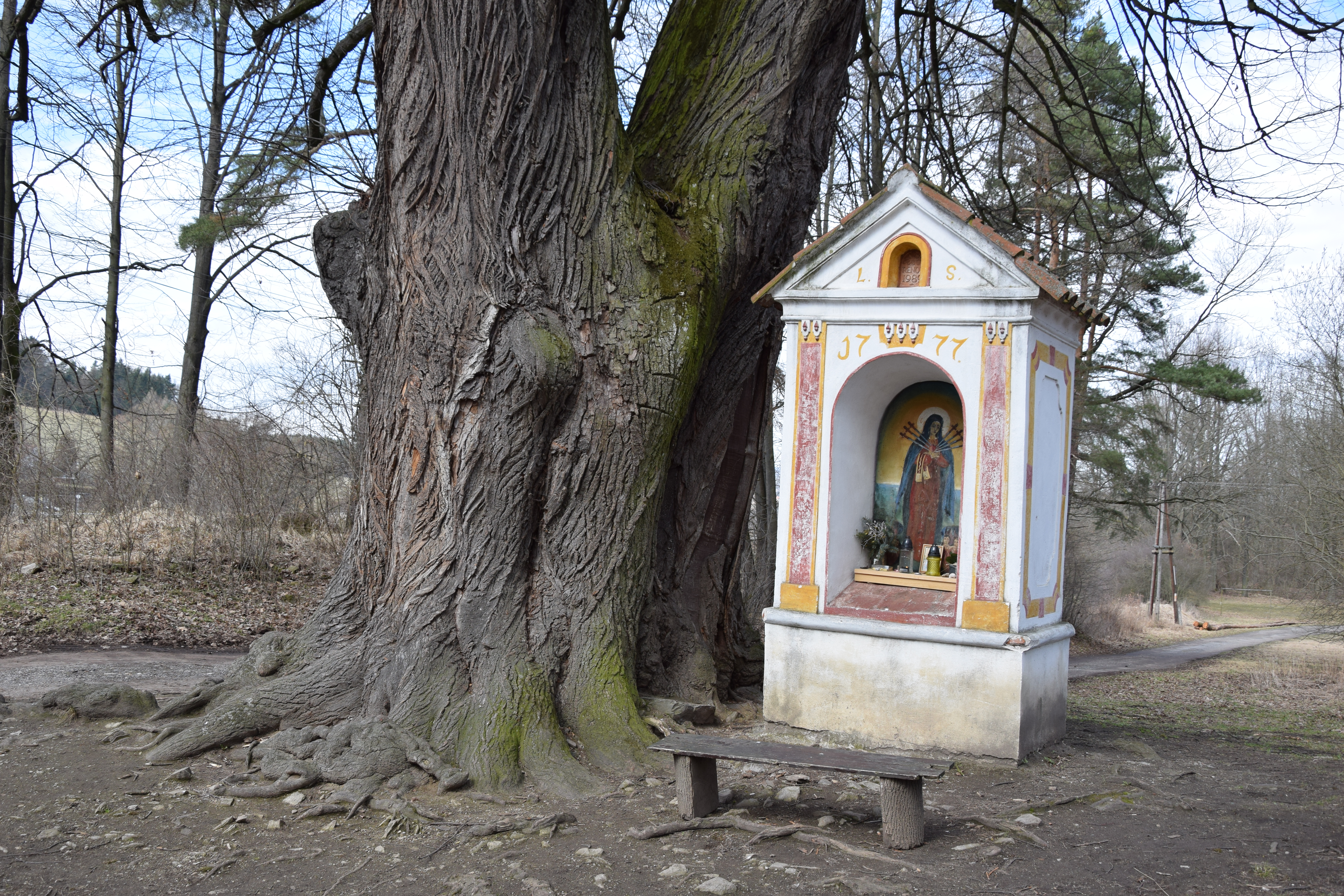 Veteran lime tree with the Chapel of Our Lady of Sorrows in Třísov, the Czech Republic.